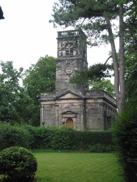 Photograph